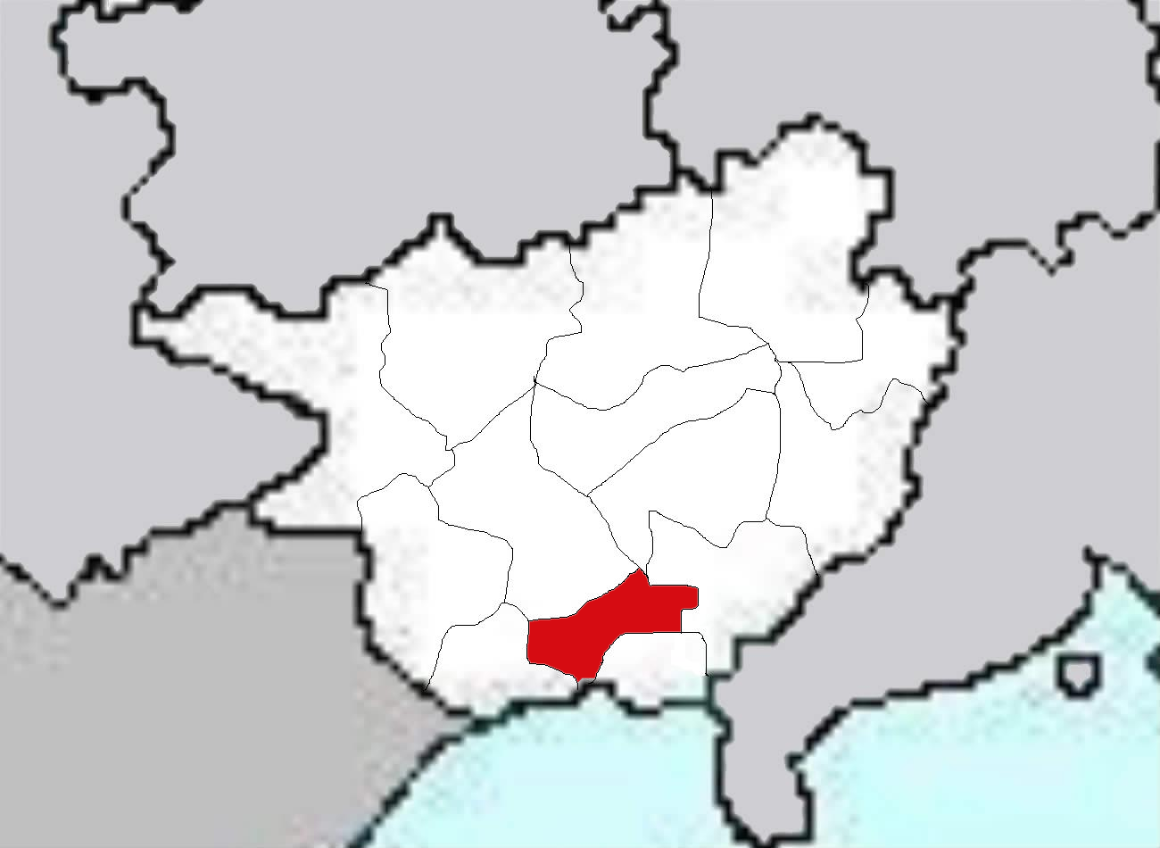 Maps of Guangxi Autonomous Region of China.